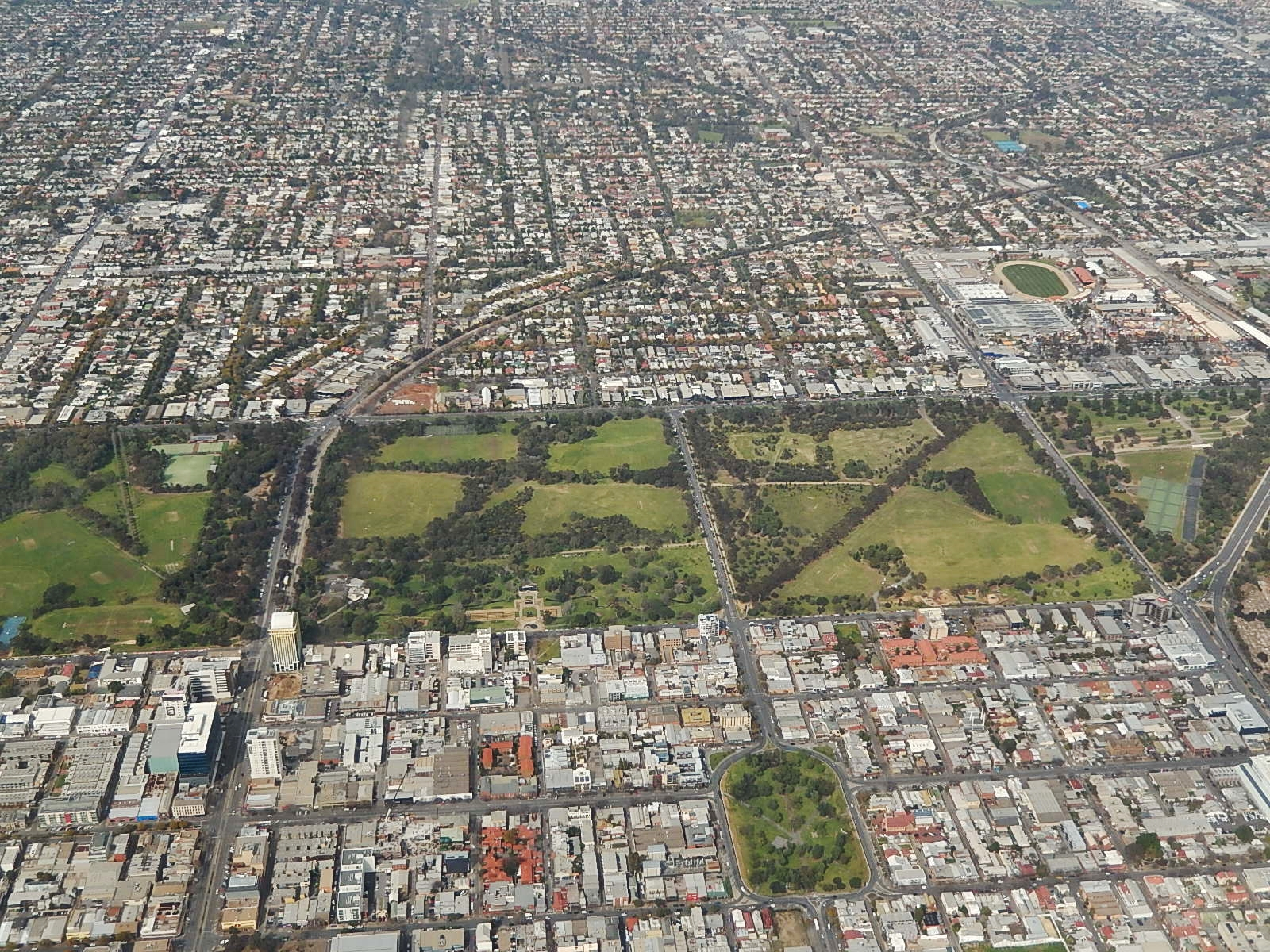 South Parklands - Adelaide